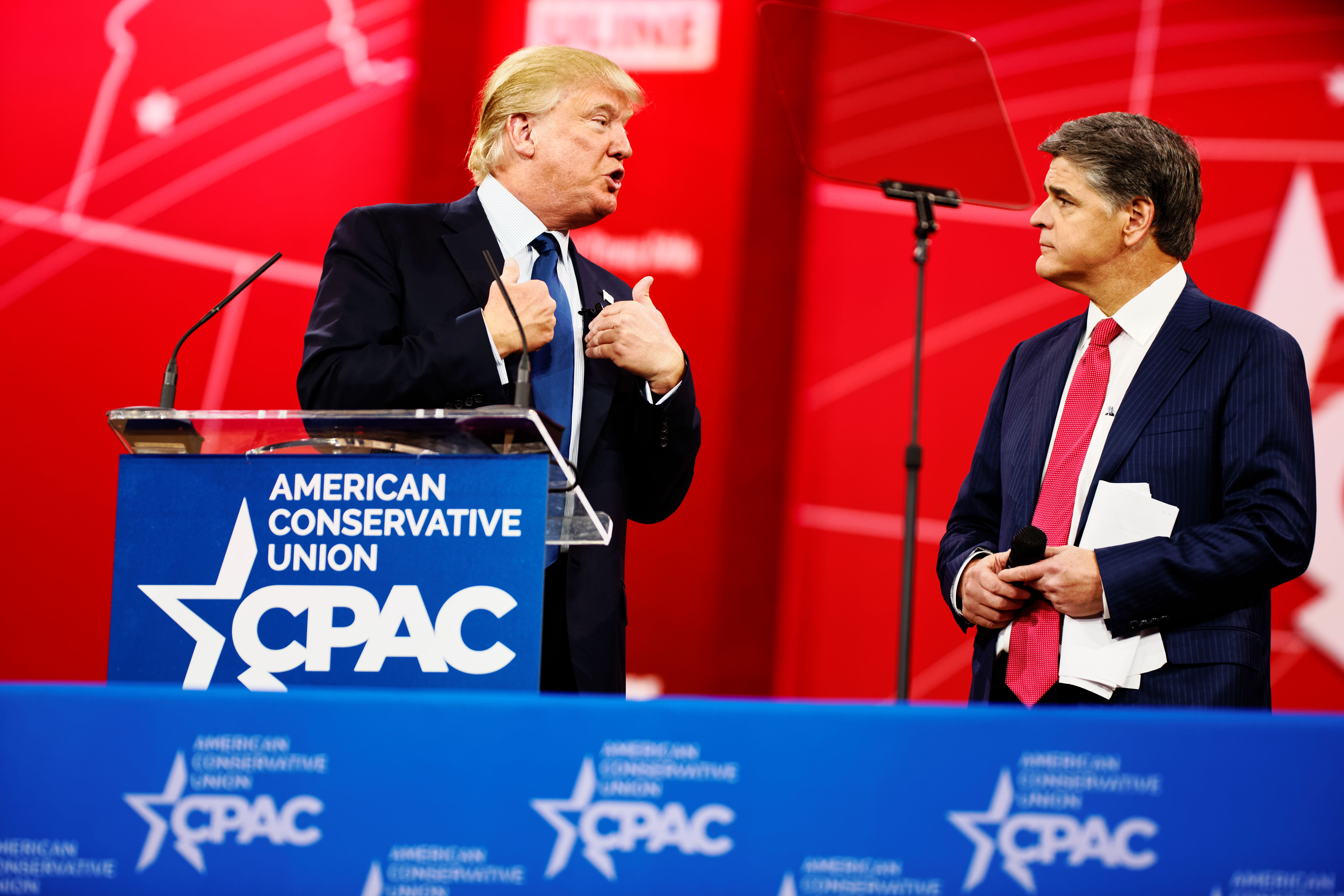 Donald John Trump Sr. (born June 14, 1946) is an American businessman, investor, television personality and author. He is the chairman and president of The Trump Organization and the founder of Trump Entertainment Resorts. Trump's extravagant lifestyle, outspoken manner, and role on the NBC reality show The Apprentice have made him a well-known celebrity who was No. 17 on the 2011 Forbes Celebrity 100 list. Trump is the son of Fred Trump, a wealthy New York City real-estate developer. He worked for his father's firm, Elizabeth Trump & Son, while attending the Wharton School of the University of Pennsylvania, and in 1968 officially joined the company. He was given control of the company in 1971 and renamed it The Trump Organization. In 2010, Trump expressed an interest in becoming a candidate for President of the United States in the 2012 election, though in May 2011, he announced he would not run. Trump was a featured speaker at the 2013 Conservative Political Action Conference (CPAC). In 2013, Trump spent over $1 million to research a possible run for president of the United States in 2016.